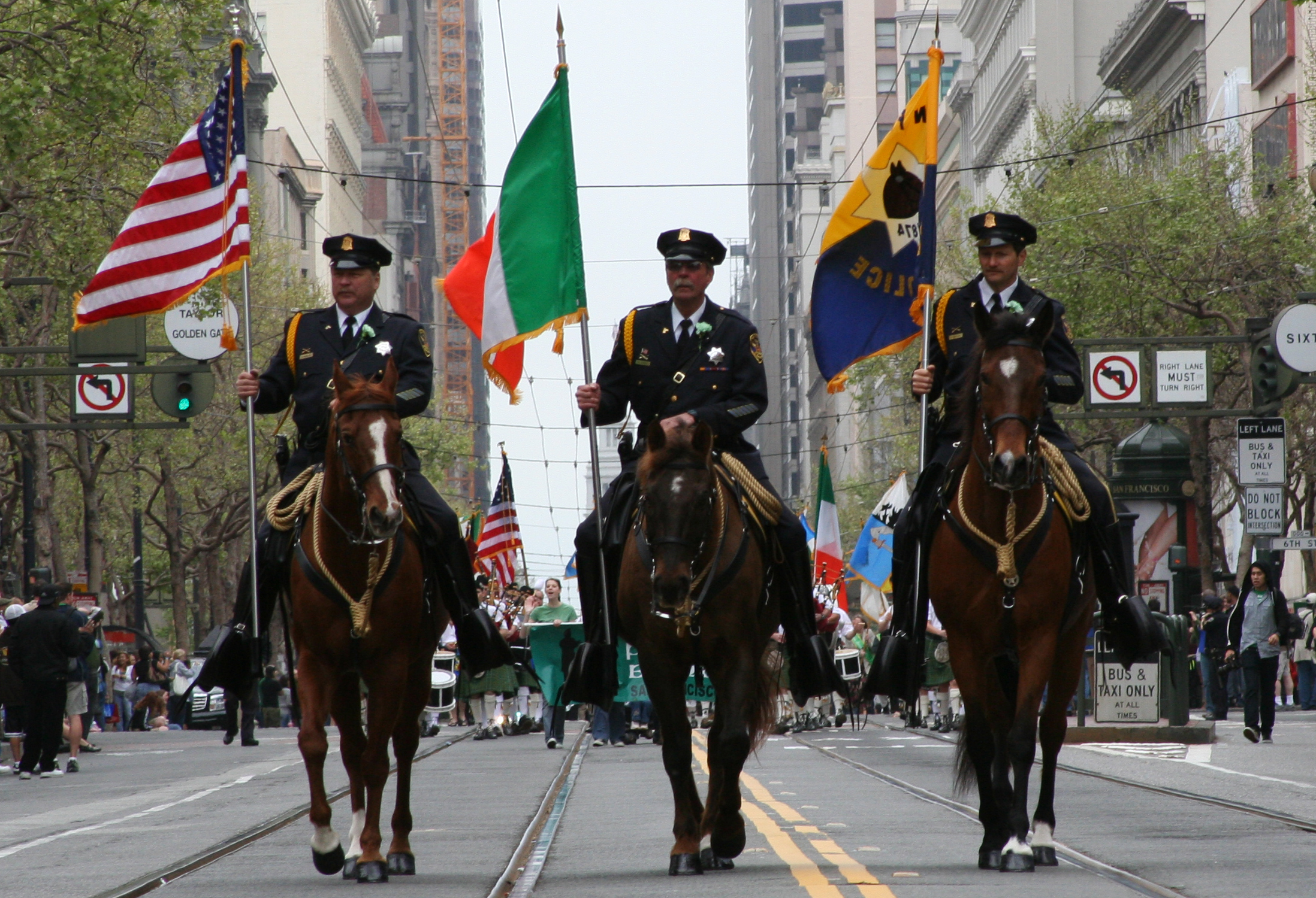 Saint Patrick's Day, San Francisco